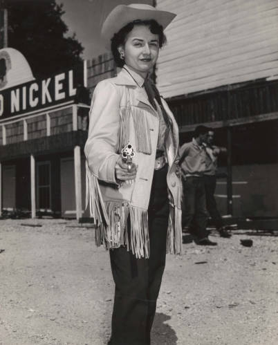 1953 Fiesta Belle Jamie Acker, aiming a gun at the camera